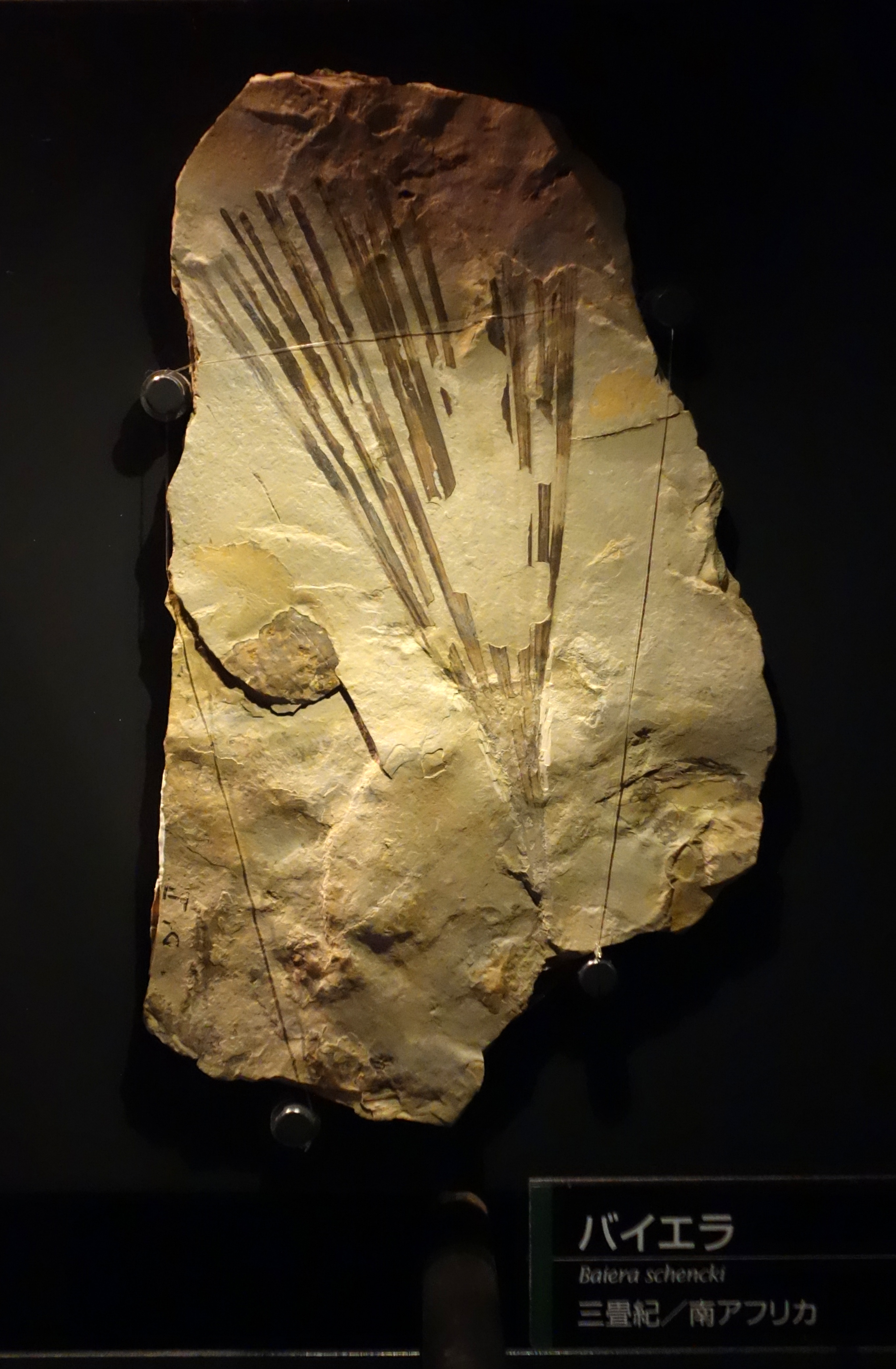 Exhibit in the National Museum of Nature and Science, Tokyo, Japan.